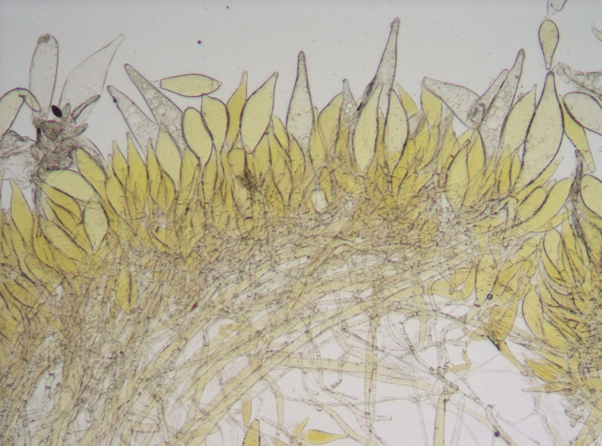 beautiful fusiform (spindle-shaped) elements make up the characteristic velvety cap texture of the species.